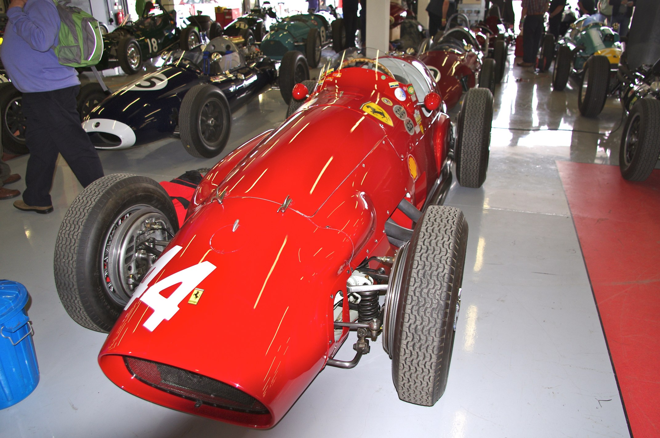 Silverstone Classic 2011